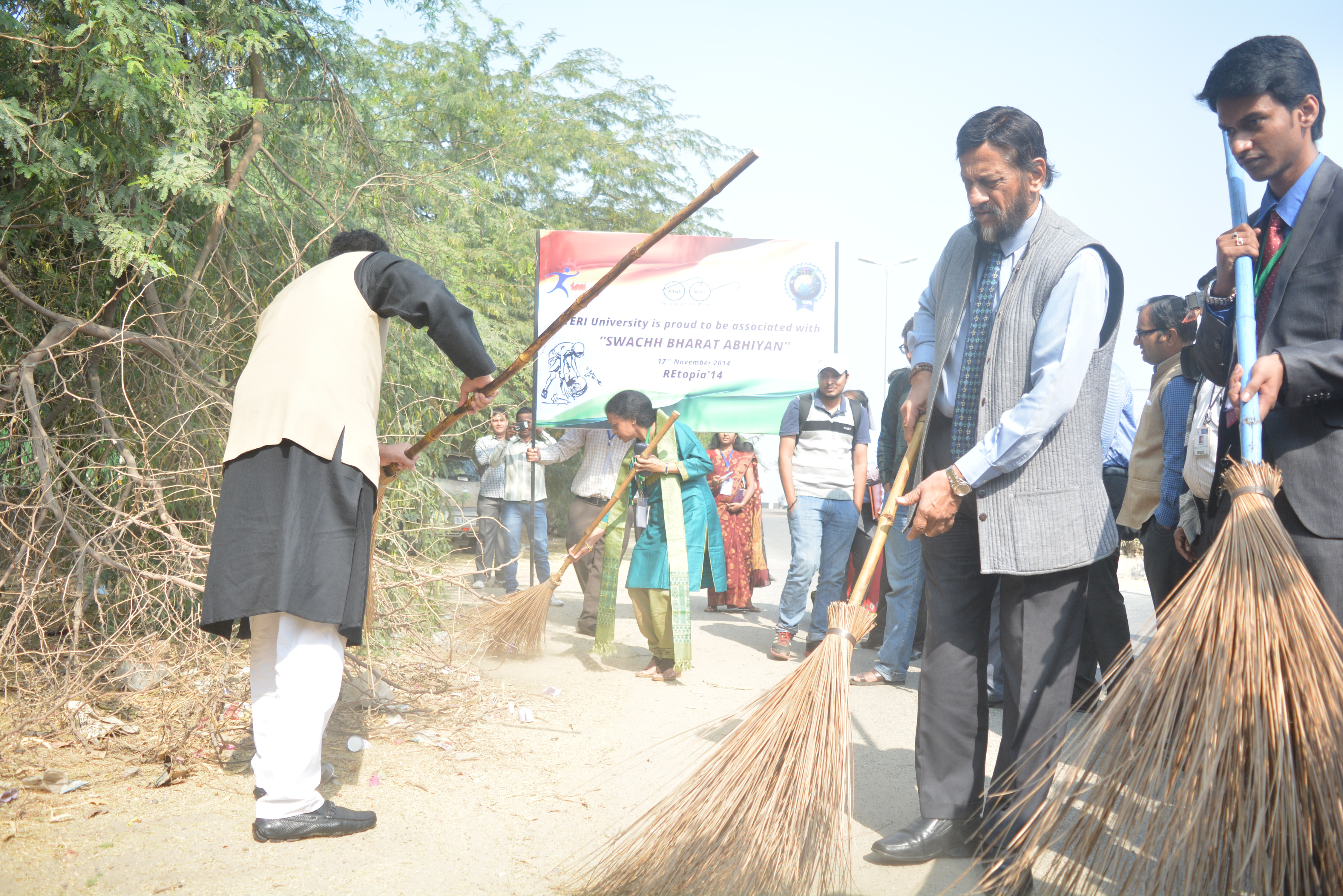 The Swatch Bharat Mission organised at Teri University.